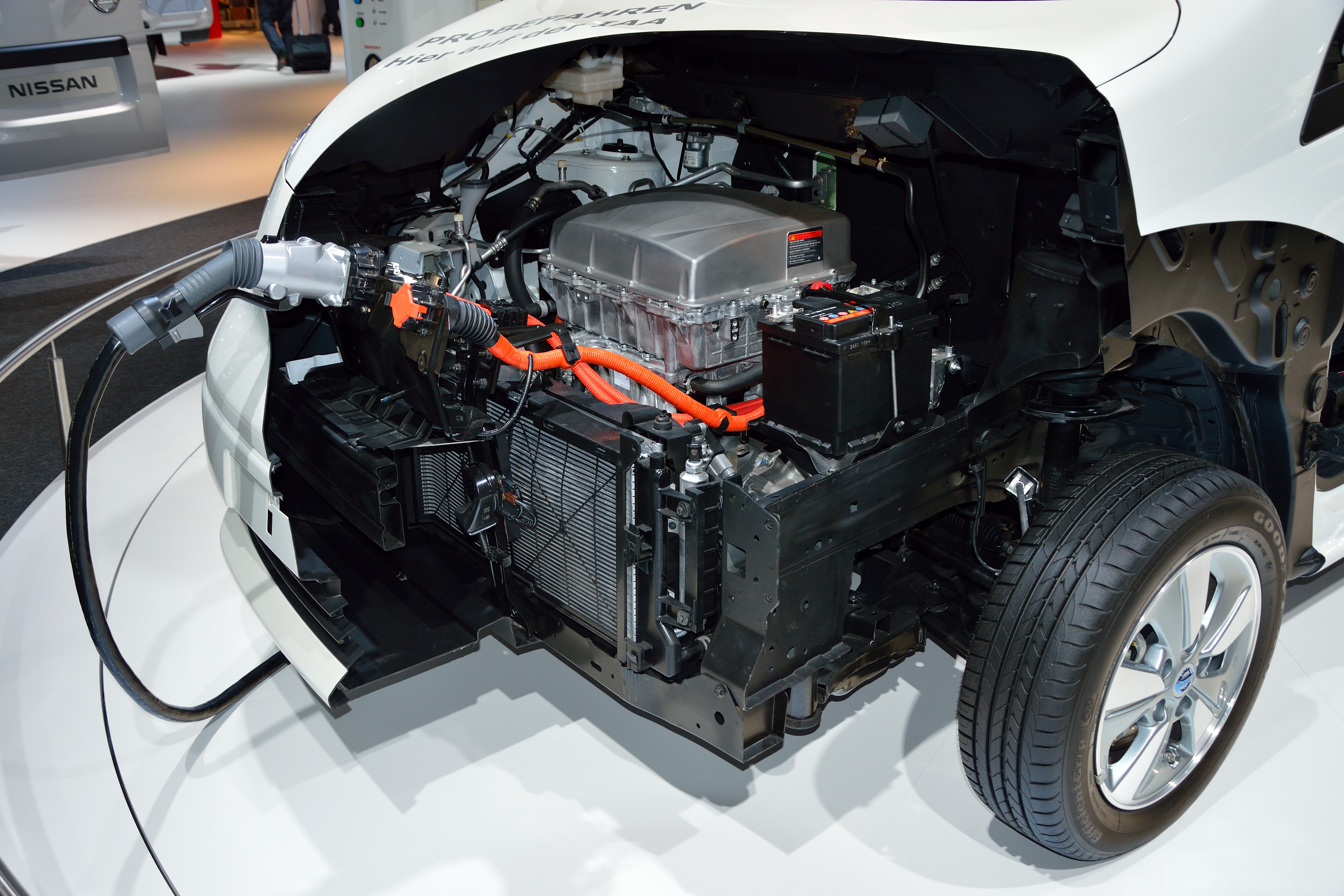 Nissan e-NV200 electric engine